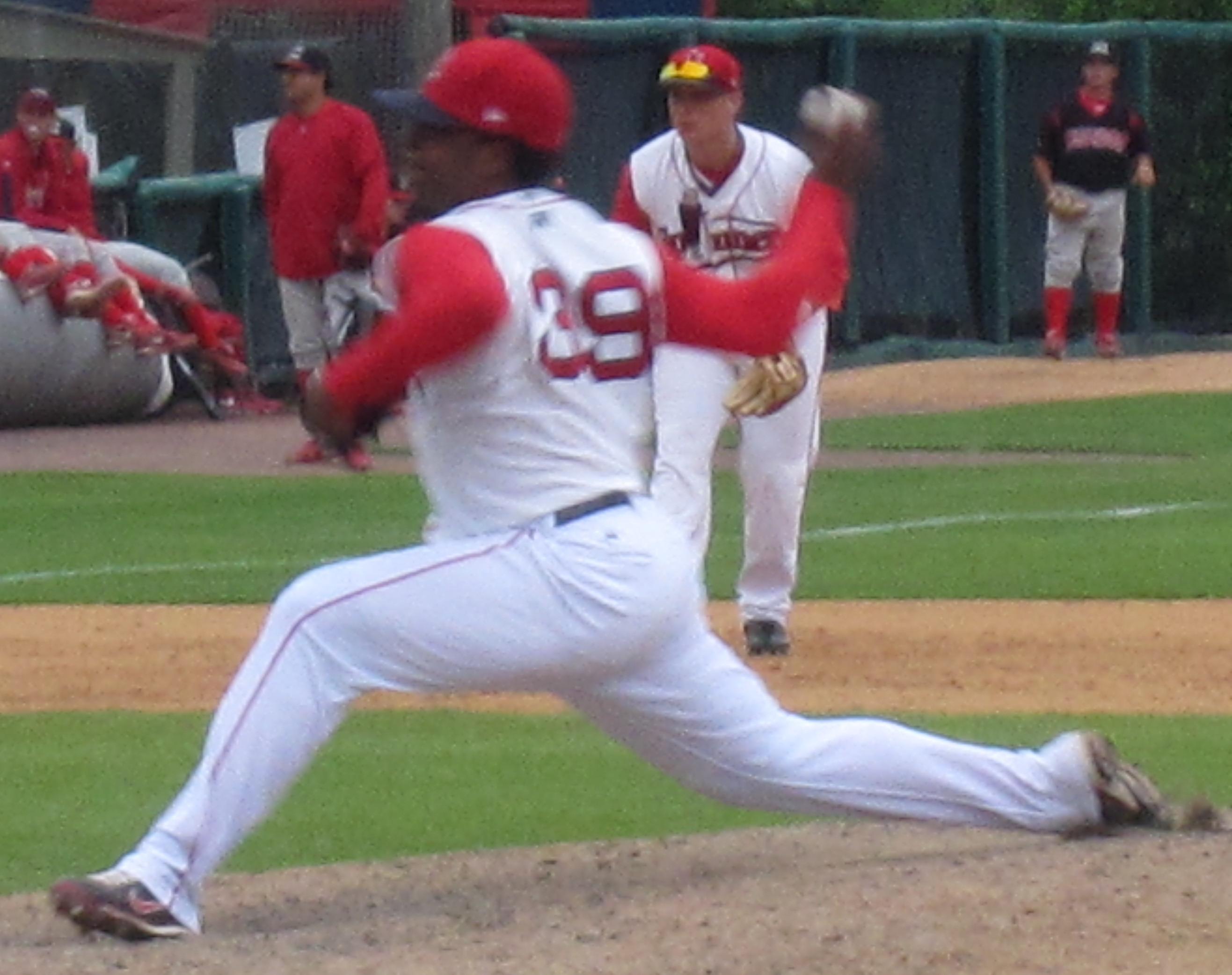 Dennis Neuman delivers a pitch for the Lowell Spinners during a 2009 game in Lowell, Massachusetts